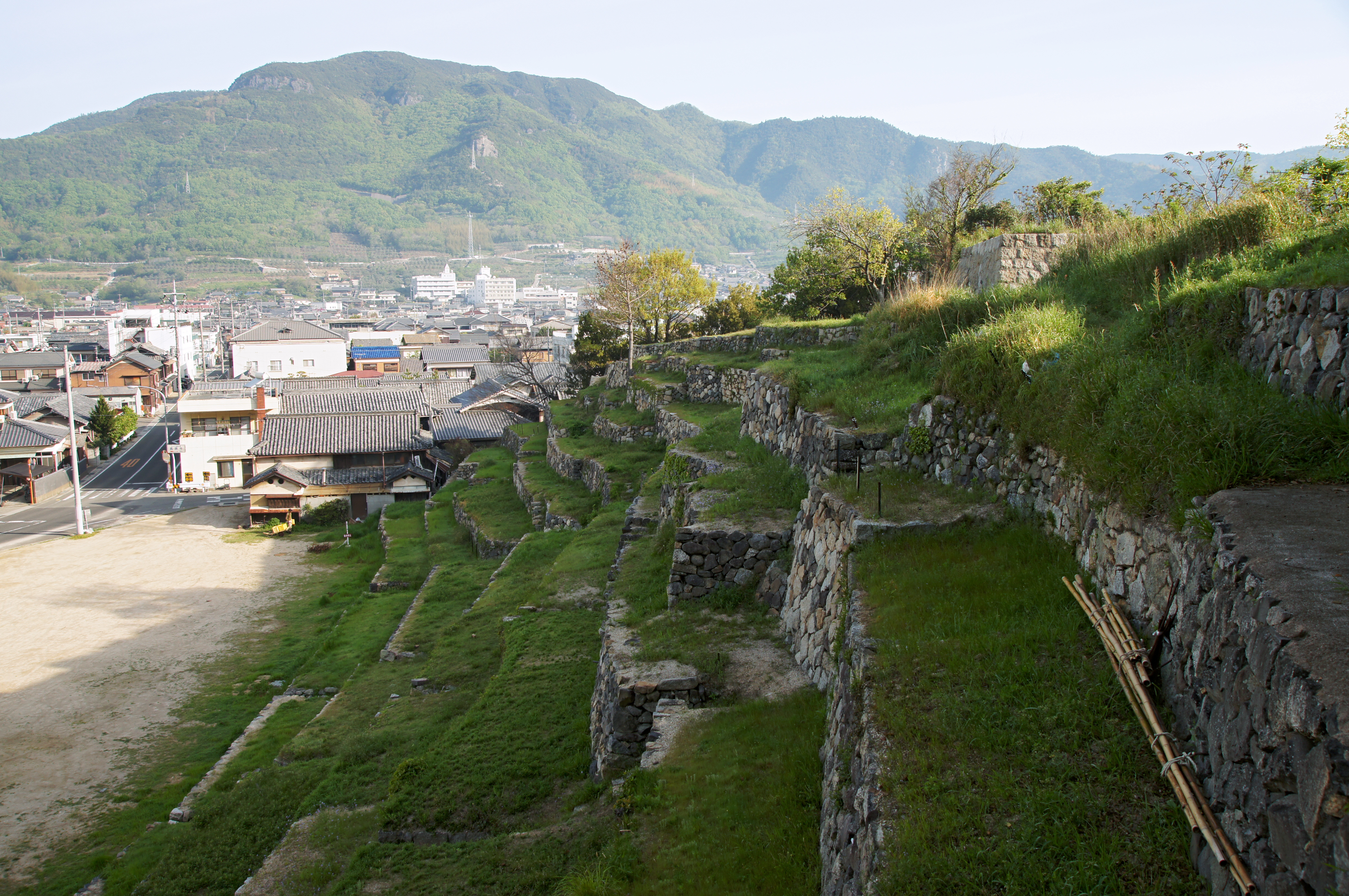 Ikeda-no-sajiki in Shodoshima, Kagawa prefecture, Japan